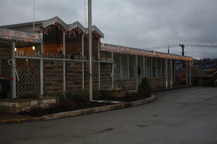 The North Braddock Municipal Building was opened in 1964 to serve as the official borough offices for North Braddock Borough.